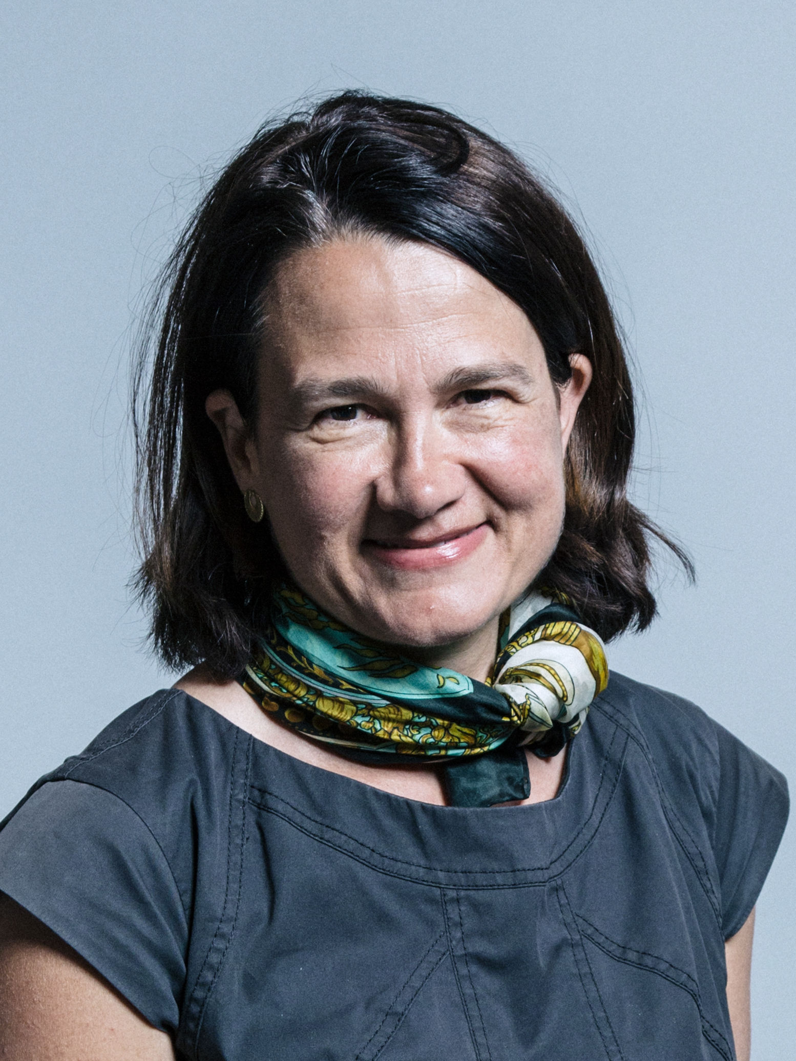 Official portrait of Catherine West